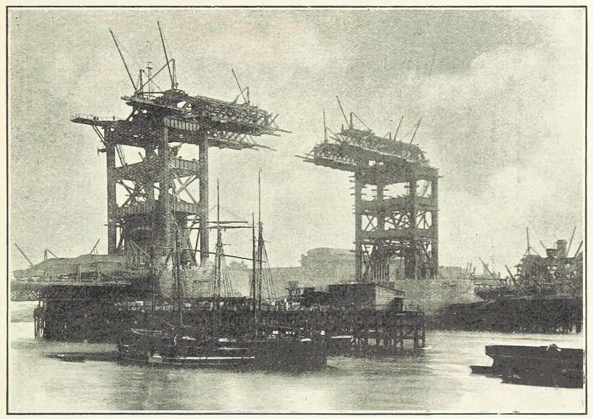 Tower Bridge under construction. Figure DD "Progress of High Level Bridge" taken from page 237 of History of the Tower Bridge and of other bridges over the Thames built by the Corporation of London. Including an account of the Bridge House Trust from the twelfth century ... With a description of the Tower Bridge by J. W. Barry ... and an introduction by the Rev. Canon Benham, etc, by Charles Welch (British Library HMNTS 10349.i.18)